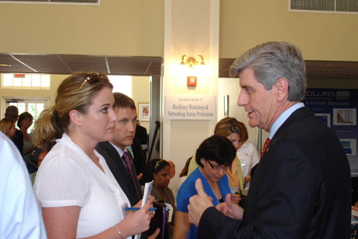 Mississippi politician Phil Bryant speaks to a constituent